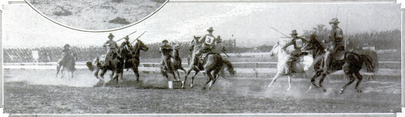 An image of riders engaging in a mounted potato race, an American rodeo event.